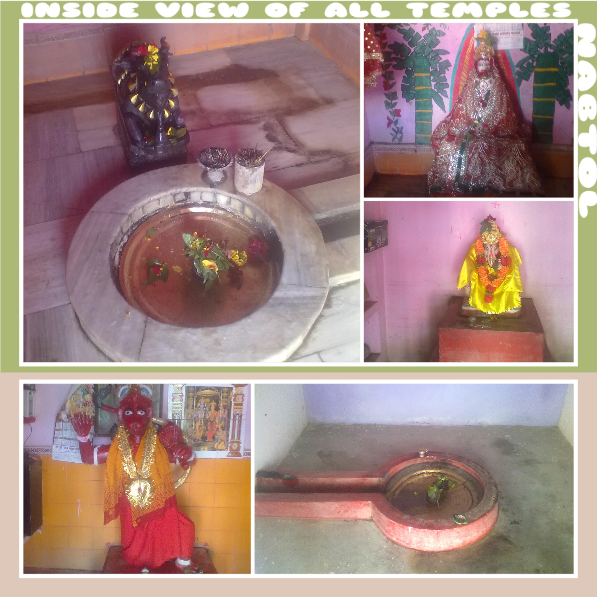 This photo contains the inside view of all the five temples in Nabtol.